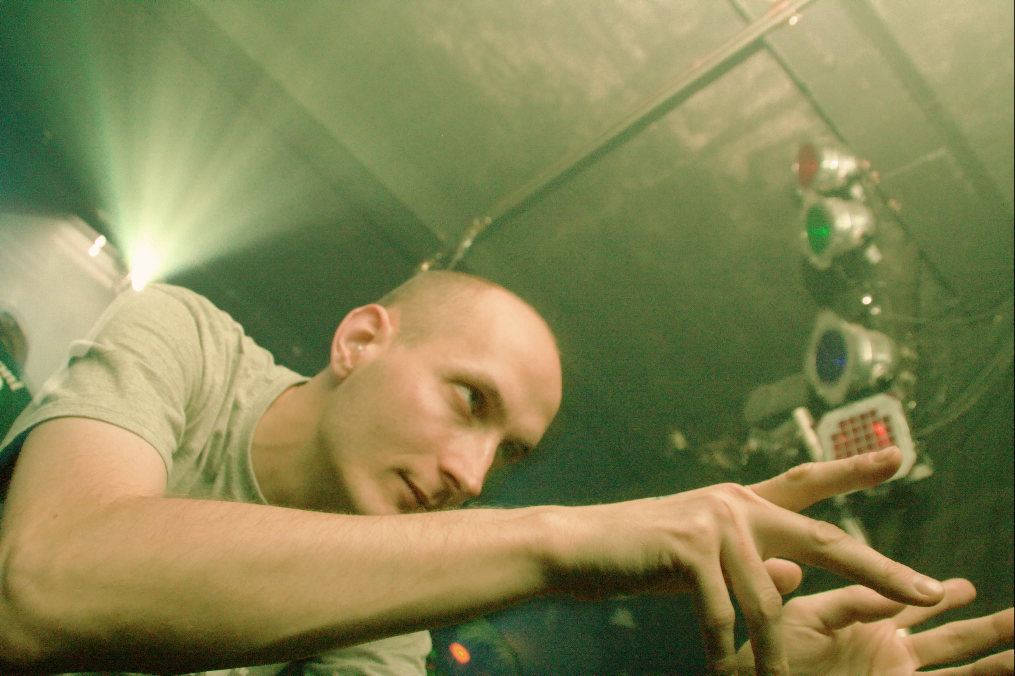 Picture of DJ Eye-D performing at Disko404 in Graz, Austria.